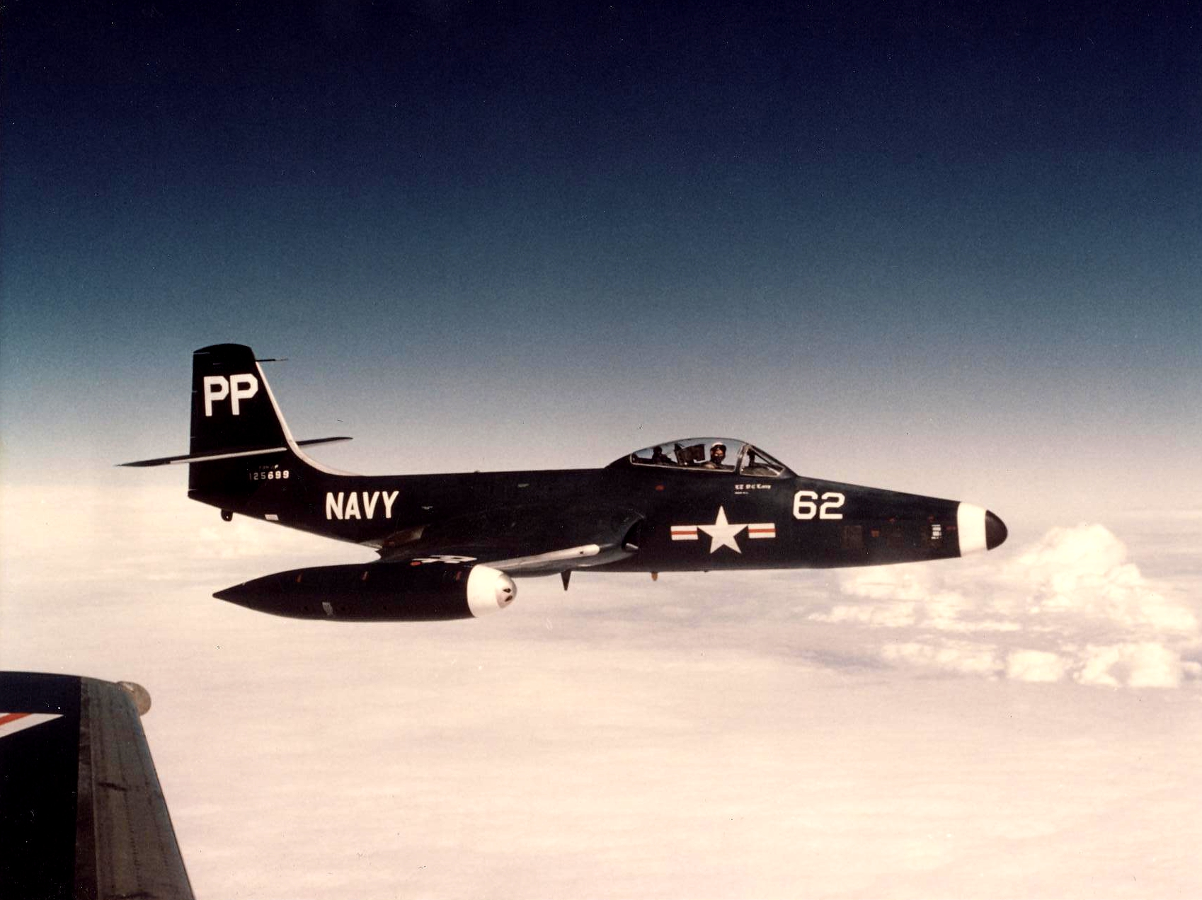 A U.S. Navy McDonnell F2H-2P Banshee (BuNo 125699) from Composite Squadron VC-61 Det.A "Eyes of the Fleet" in flight near Southern California. VC-61 Det.A was assigned to Carrier Air Group 2 (CVG-2) aboard the aircraft carrier USS Essex (CVA-9) for a deployment to the Western Pacific from 3 November 1954 to 21 June 1955.